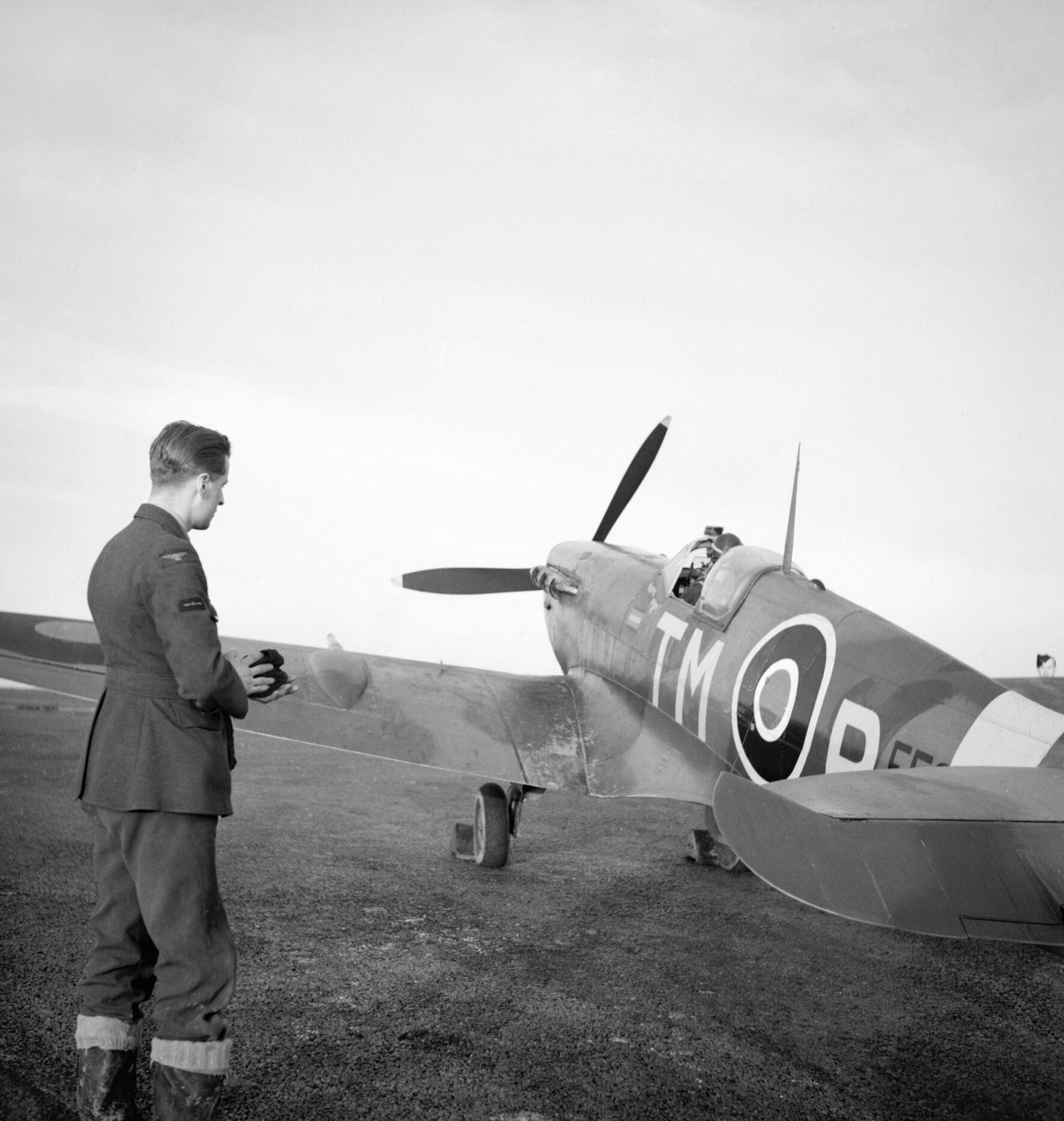 An engine fitter watches the CO of No. 504 Squadron, Squadron Leader R. Lewis, in his Spitfire Mk VC at Middle Wallop, December 1942. An engine fitter identified only as 'Lofty' featured in a series of official photographs taken at Middle Wallop in December 1942, intended to illustrate the vital but unsung daily activities of a typical 'erk' (as all junior RAF ground staff were known). Lofty is seen here with his charge, Spitfire VC EE624/TM-R, flown by Squadron Leader R. Lewis, commanding No 504 Squadron.